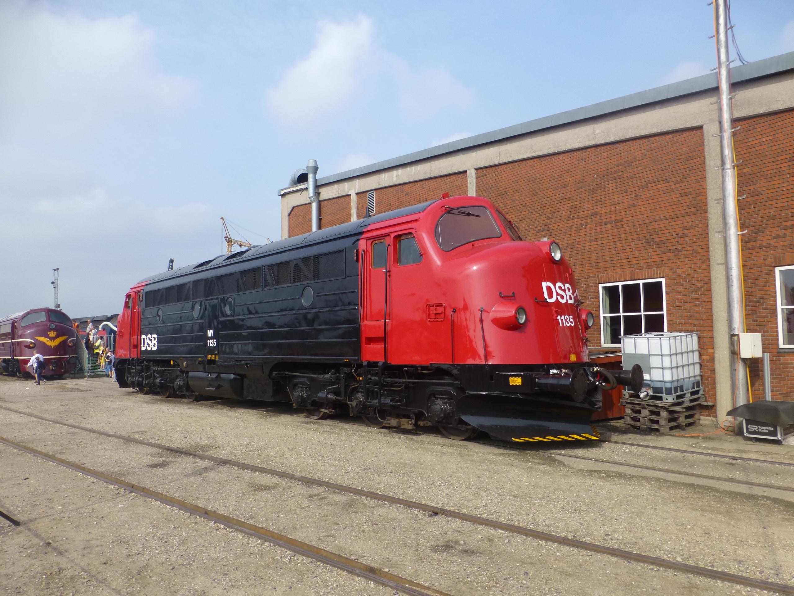 Celebration of 60 years of GM locomotives in Denmark at Danmarks Jernbanemuseum. The diesel locomotive DSB MY 1135 from 1957.